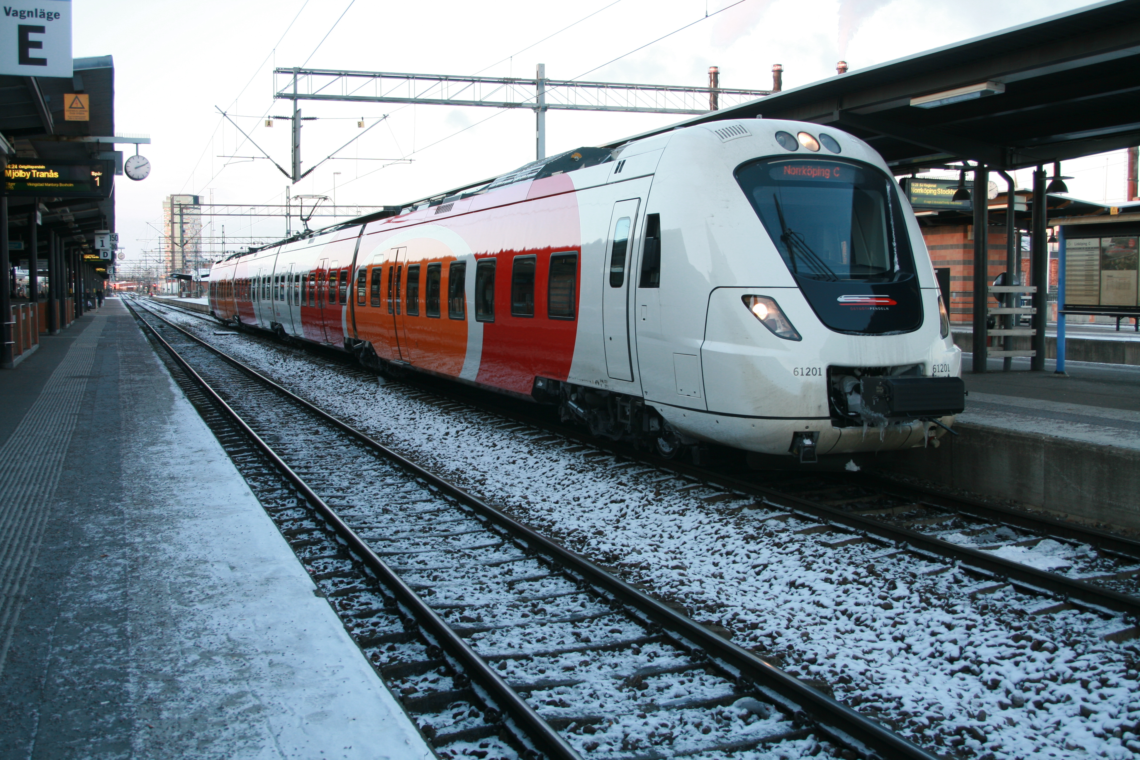 Local train "Östgötapendeln", an Alstom X61, at track 2, Linköping train station, en route to Norrköping in Sweden.